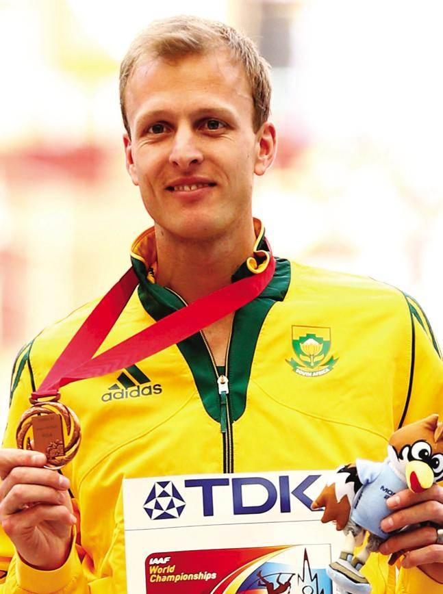 Johan Cronje at the 2013 World championships Athletics in Moscow